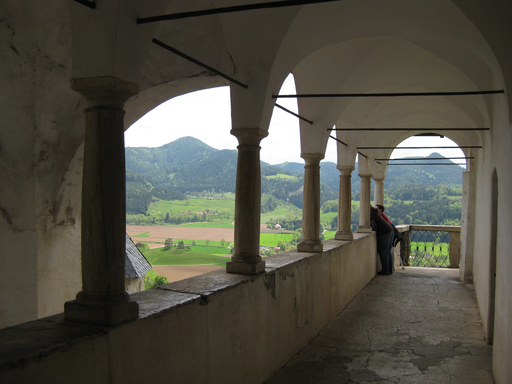 Hochosterwitz castle (slovenian: grad Ostrovica), castle in Carinthia state, Austria